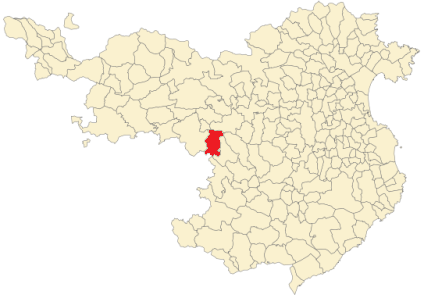 Sant Feliu de Pallarols